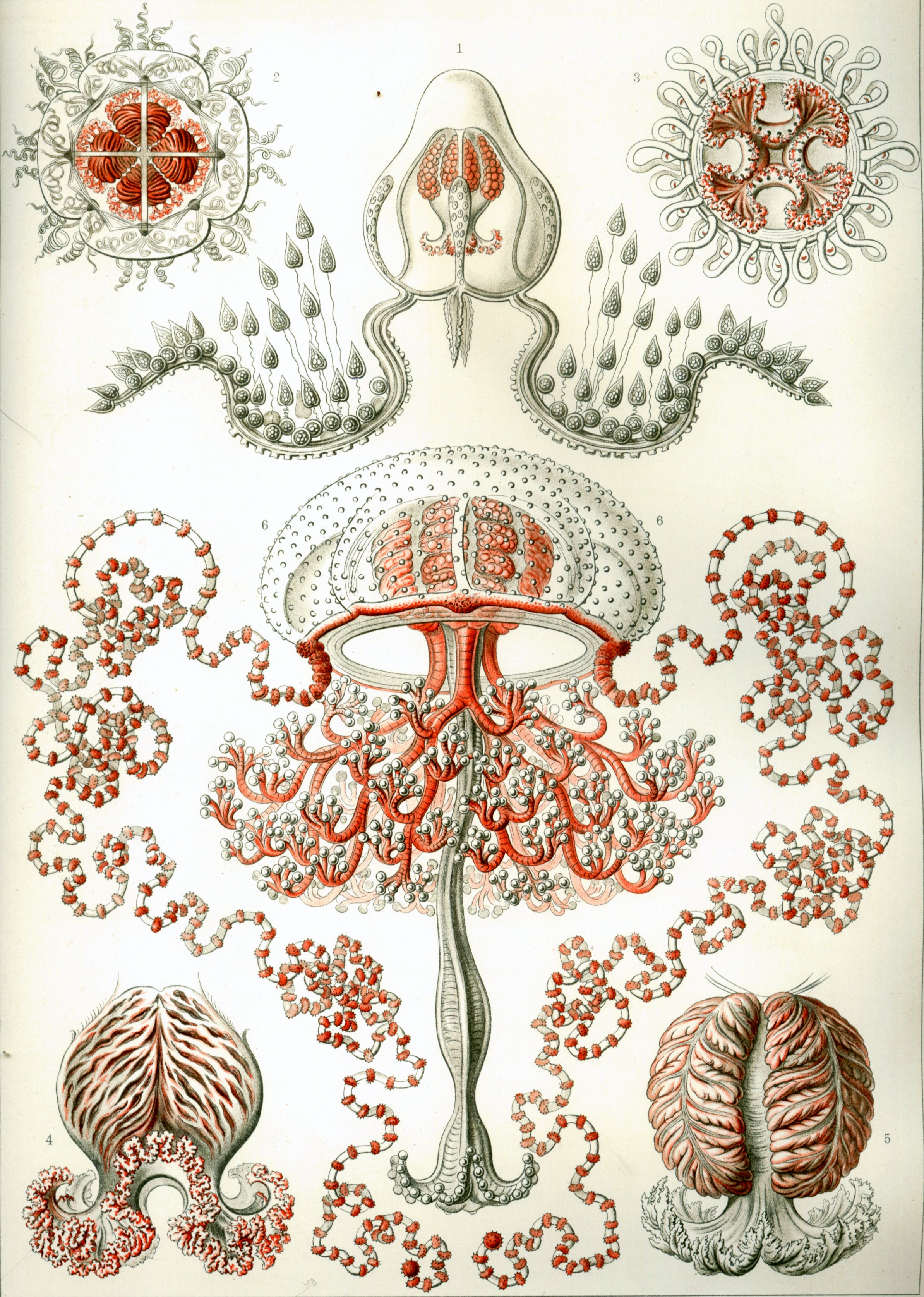 Enlarge image for index to numbers. Gemmaria sagittaria (Haeckel) = Zanclea gemmosa Mac Grady, 1857, young medusa from the side Rathkea fasciculata (Haeckel) = Koellikerina fasciculata (Péron & Lesueur, 1810), medusa from above Tiara pileata (Haeckel) = Neoturris pileata (Forskål, 1775), medusa from below Tiara pileata (Haeckel) = Neoturris pileata (Forskål, 1775), internal organs from the side Stomotoca pterophylla (Haeckel) = Larsonia pterophylla (Haeckel, 1879), internal organs from the side Thamnostylus dinema (Haeckel) = Sarsiella dinema Haeckel, 1879? (=Leuckartiara), medusa from the side